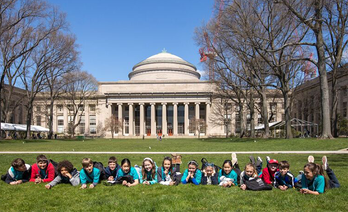 British International School of Chicago, Lincoln Park collaborates with Massachusetts Institute of Technology